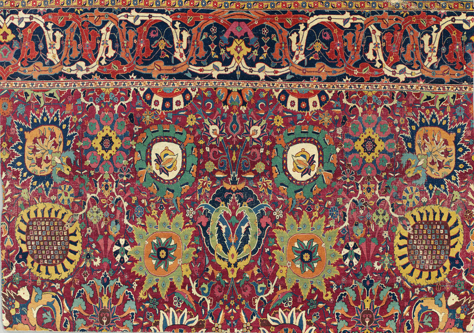 Size: 2.86 x 2.05m (9’5” x 6’9”).Estimate: £250,000-350,000 The second piece, a large, well balanced, field and border section, assigned to the early 17th century and symmetrically cut from the original sometime in the 19th, is particularly finely woven and in wonderful condition. It is estimated at just £250,000-350,000. With huge classic vase carpet palmettes and blossoms on a rich red-ground, topped by a broad blue-ground strap-work border, it represents a significant but previously unrecorded part of a well-known dismembered grand red-ground Kerman carpet (or perhaps a matched pair of carpets?). At least another dozen fragments, large and small, survive in museum collections in Boston, London, Paris, Lyons, Copenhagen, Glasgow, St Petersburg, Berlin and Doha. The fragment now in Doha is the only other piece to appear on the auction market in recent times, when it made just over a quarter of a million dollars at CLO in April 2011 (HALI 168, p.139).